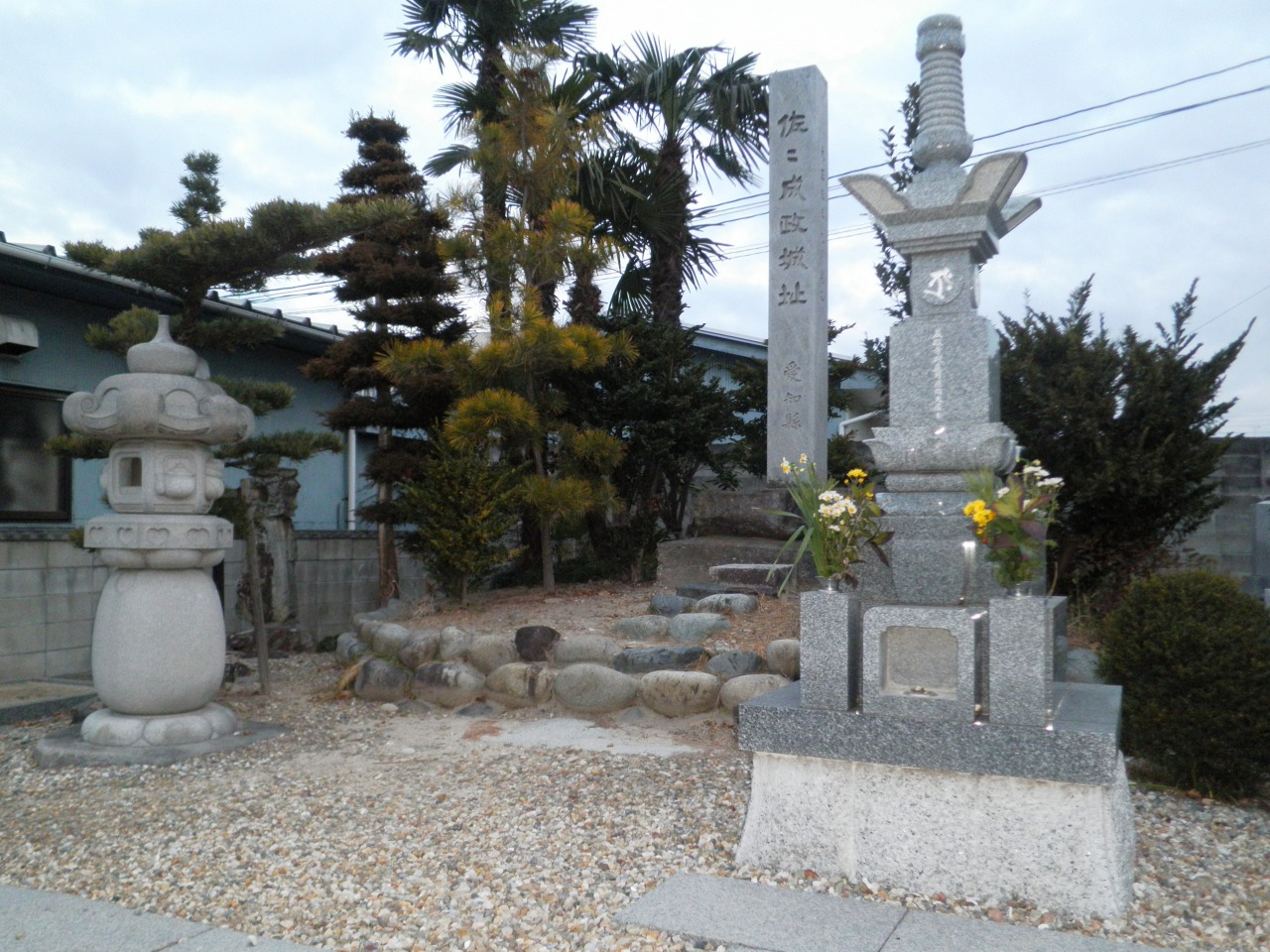 Monument of Sassa Narimasa's castle site and his grave at Castle Site of Hira in Nagoya, Aichi.